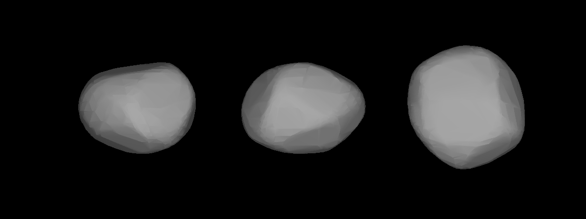 A three-dimensional model of 23 Thalia that was computed using light curve inversion techniques.